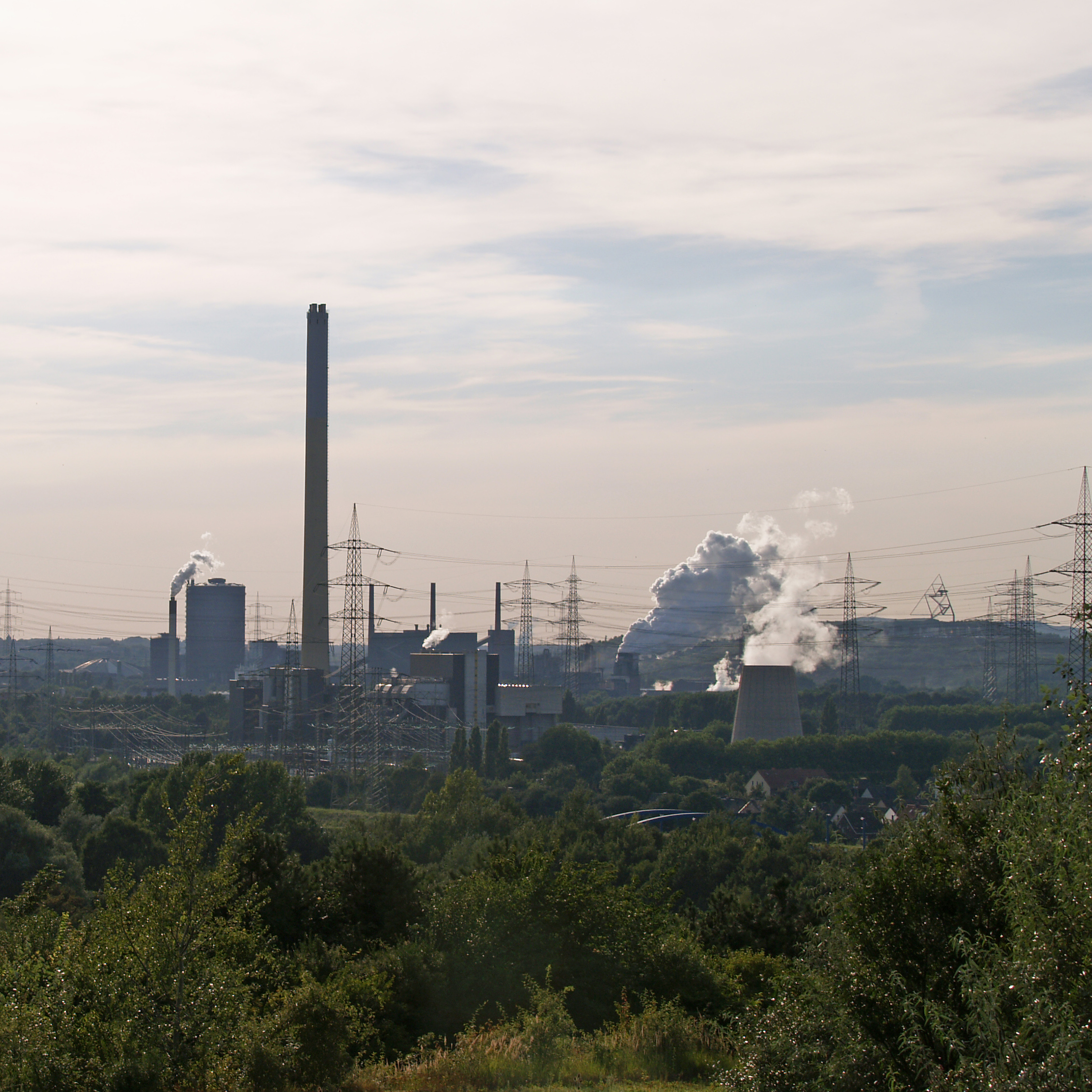 Kokerei Prosper (the coke oven, not the coal mine that remains invisible behind the coke oven) in Bottrop, Germany, view from from south-east at the Halde Schurenbach in Essen